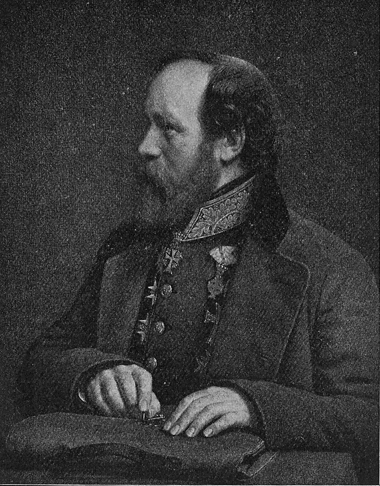 Johan Carl Ernst Berling